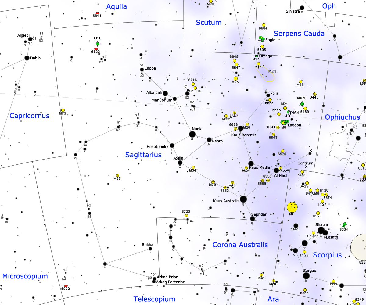 Map of Sagittarius